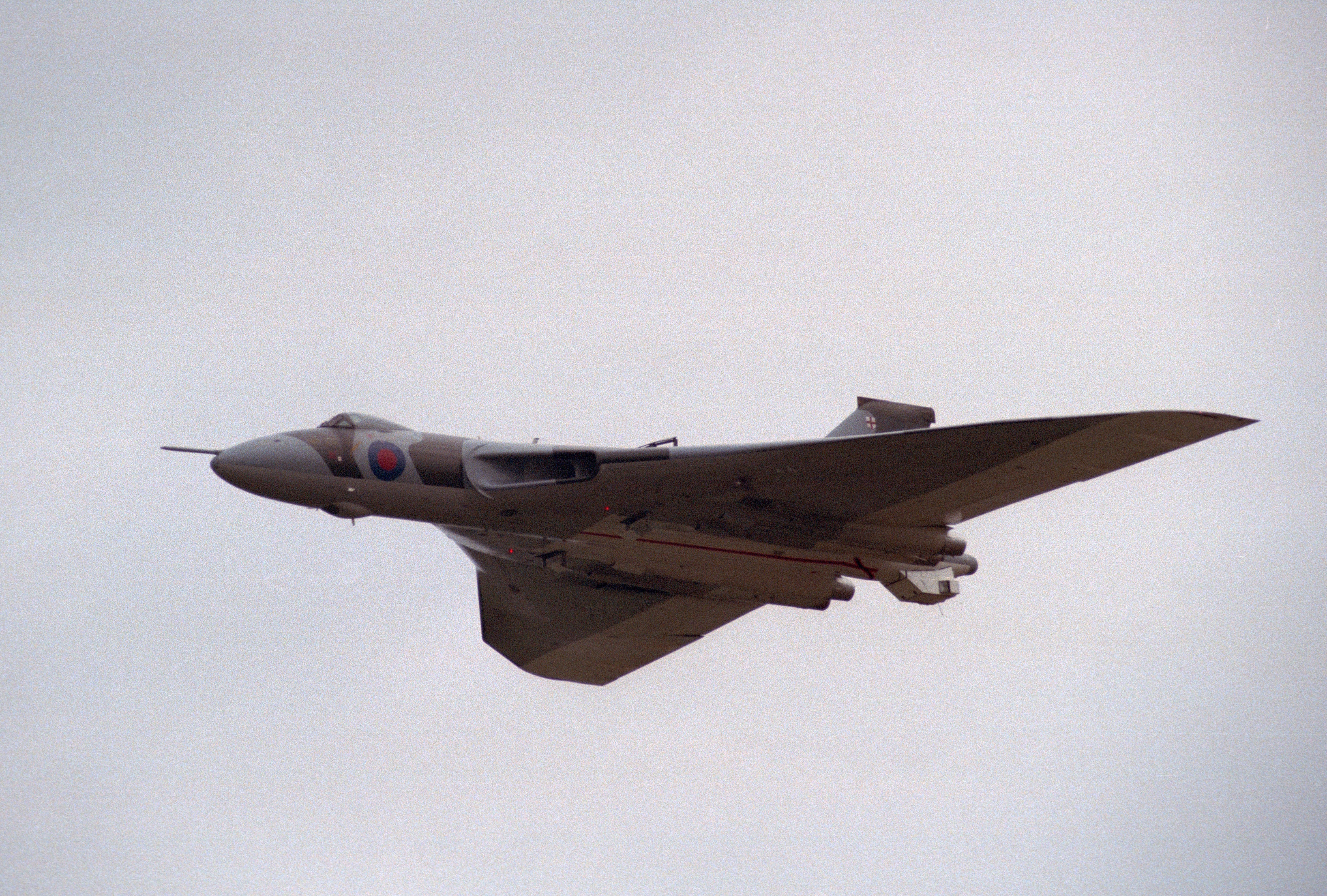 Vulcan K2 Tanker is running down the runway at RAF Fairford